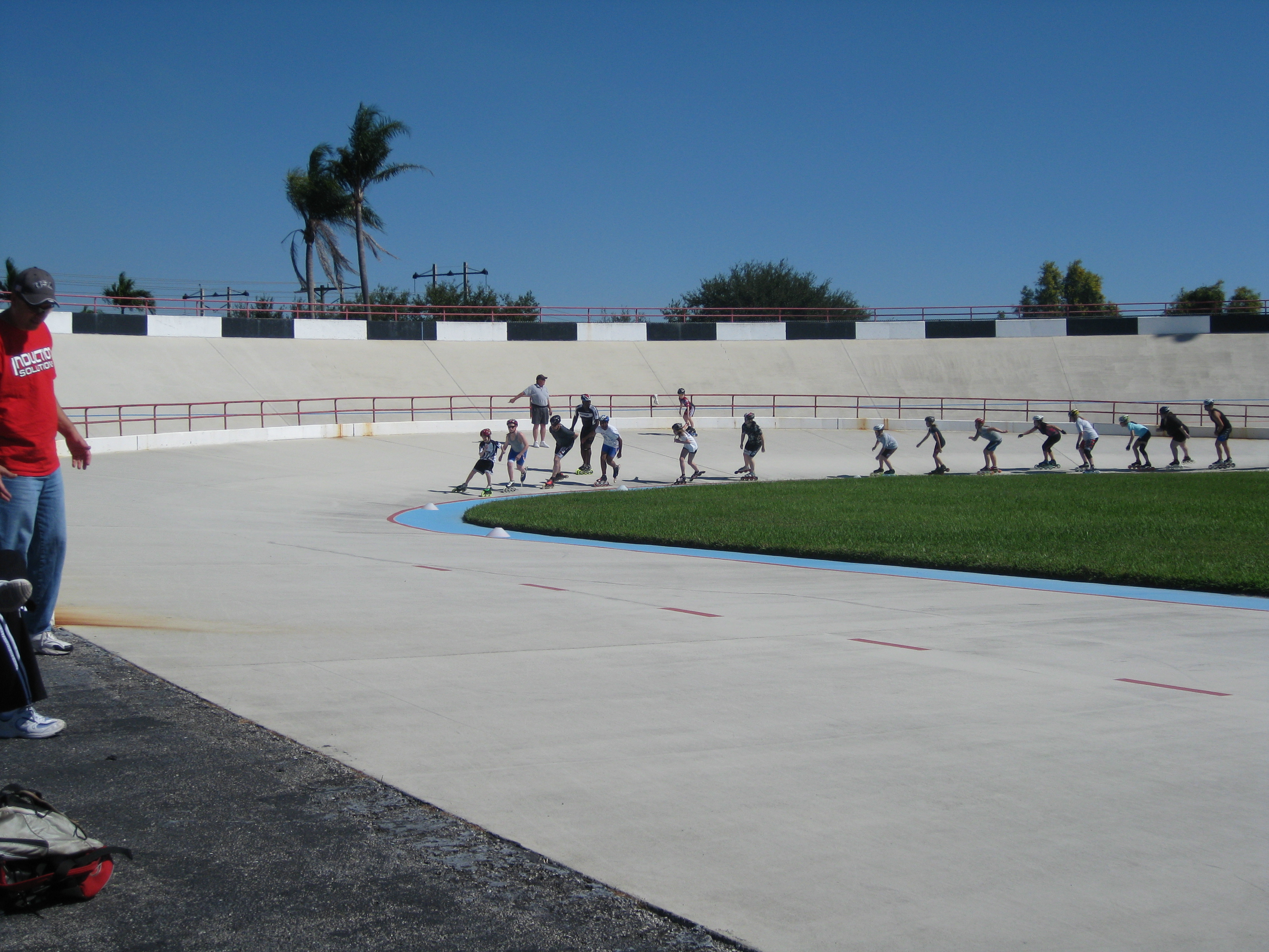 IMG_0441 Brian Piccolo Park Velodrome